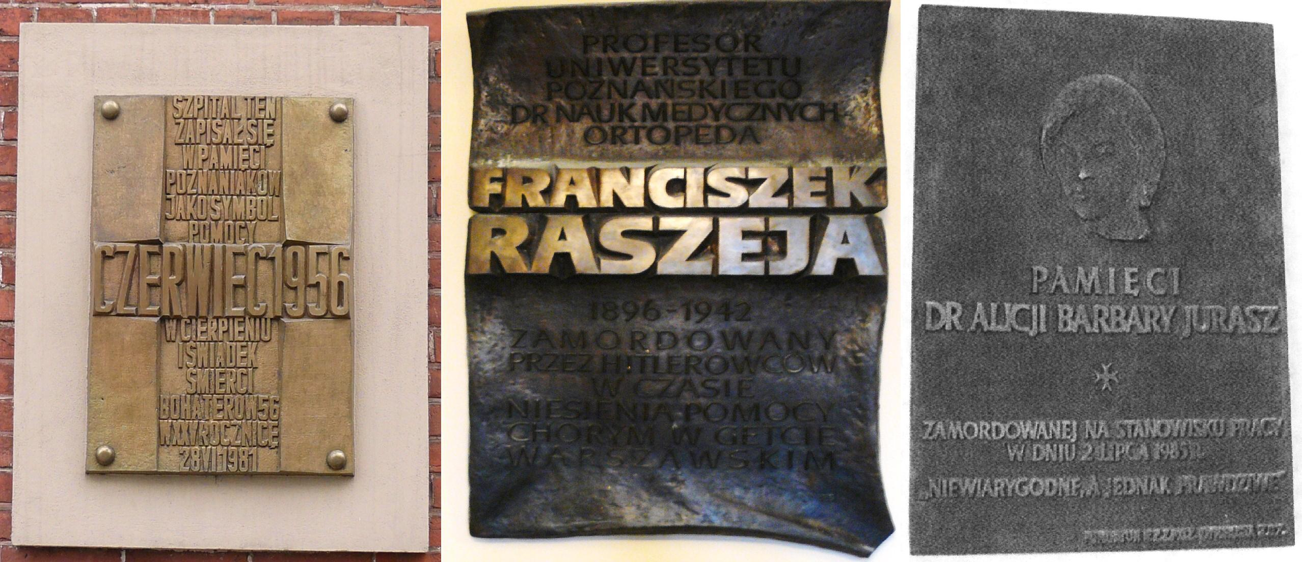 Plaques in Raszeja Hospital, Poznan.